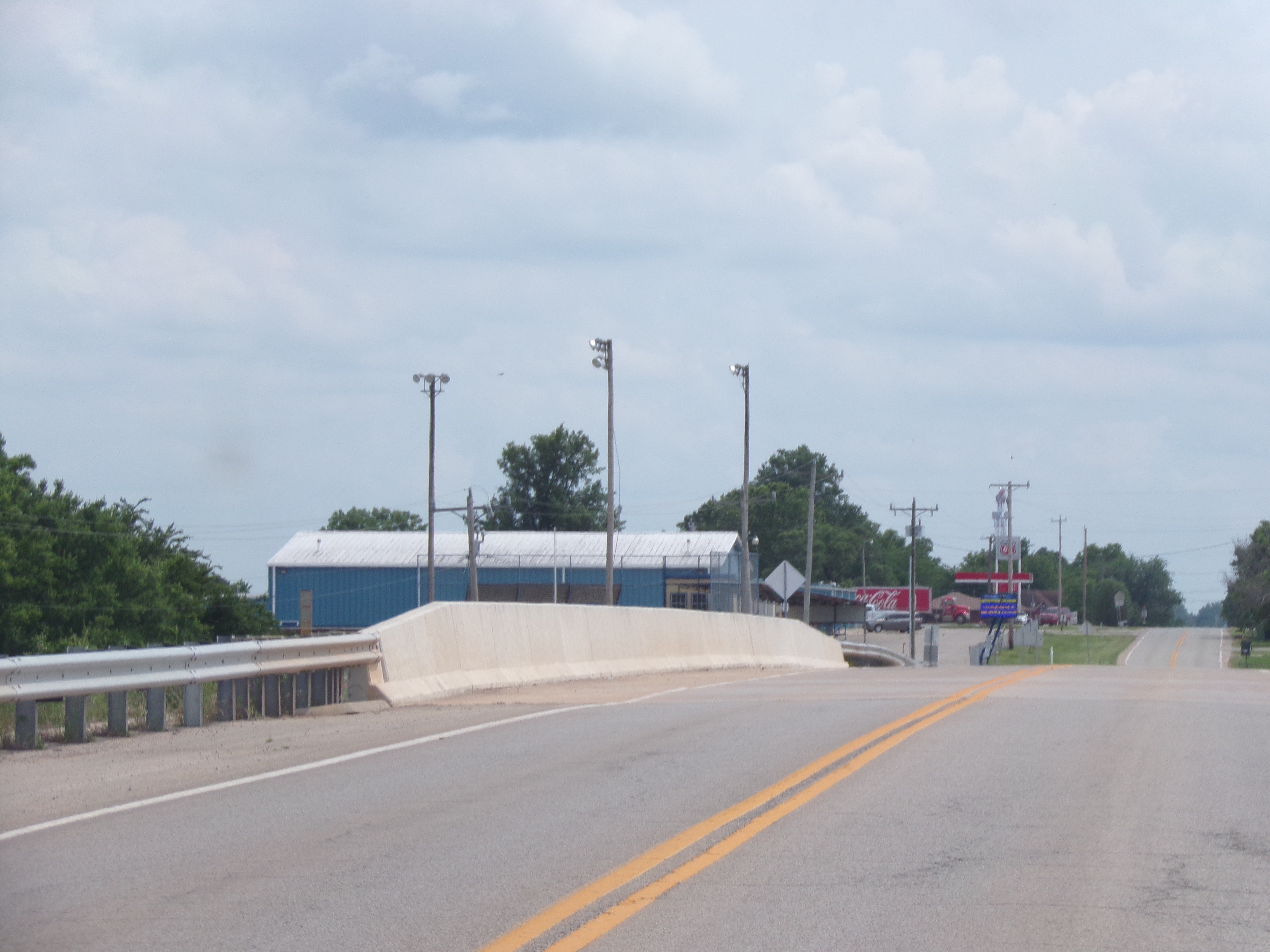 I took this picture in Glencoe, Oklahoma.